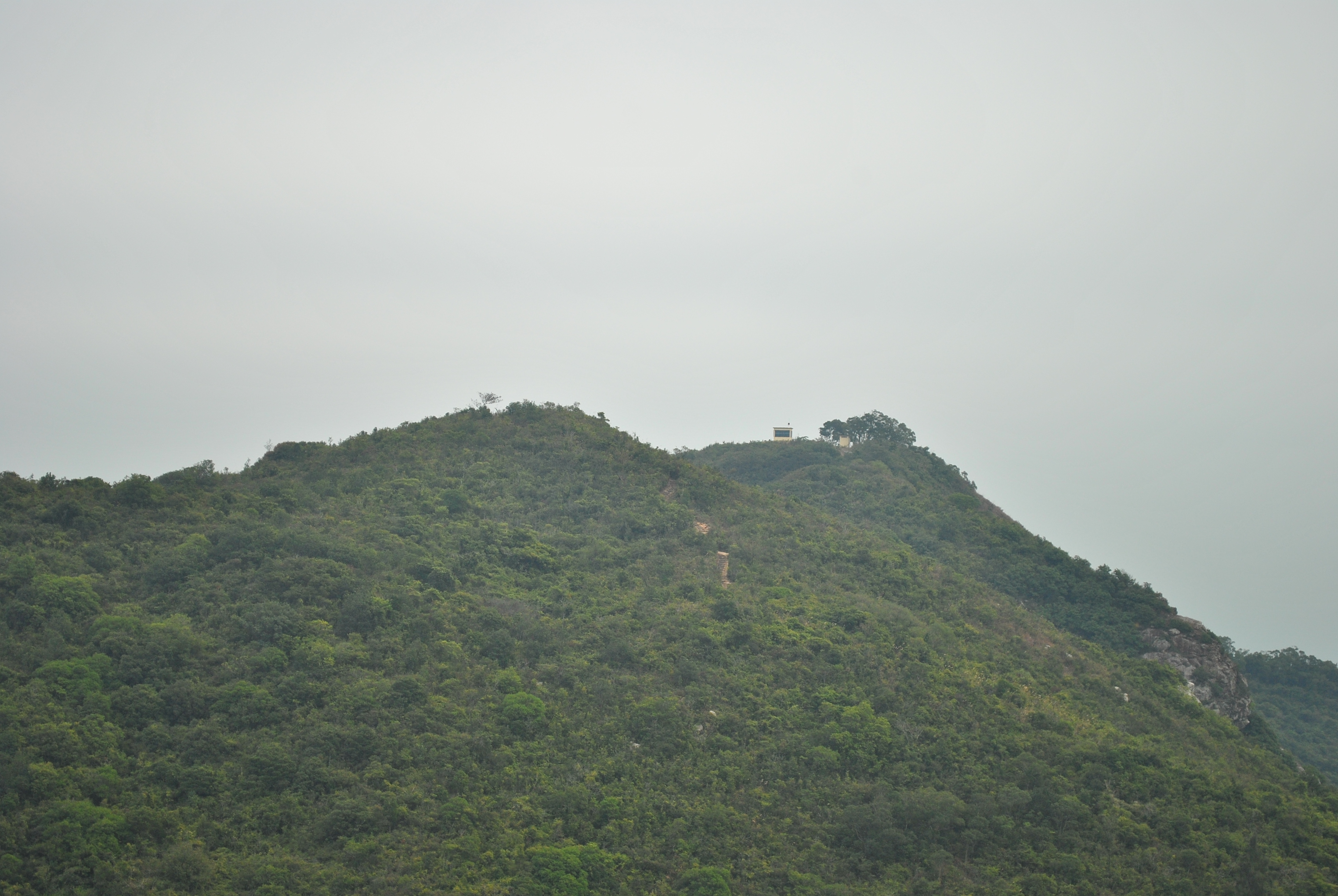 Lo Yan Shan